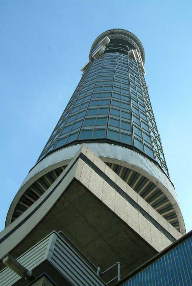 BT Tower - from base - London - England - Photo by and copyright Tagishsimon - 2nd May 2004